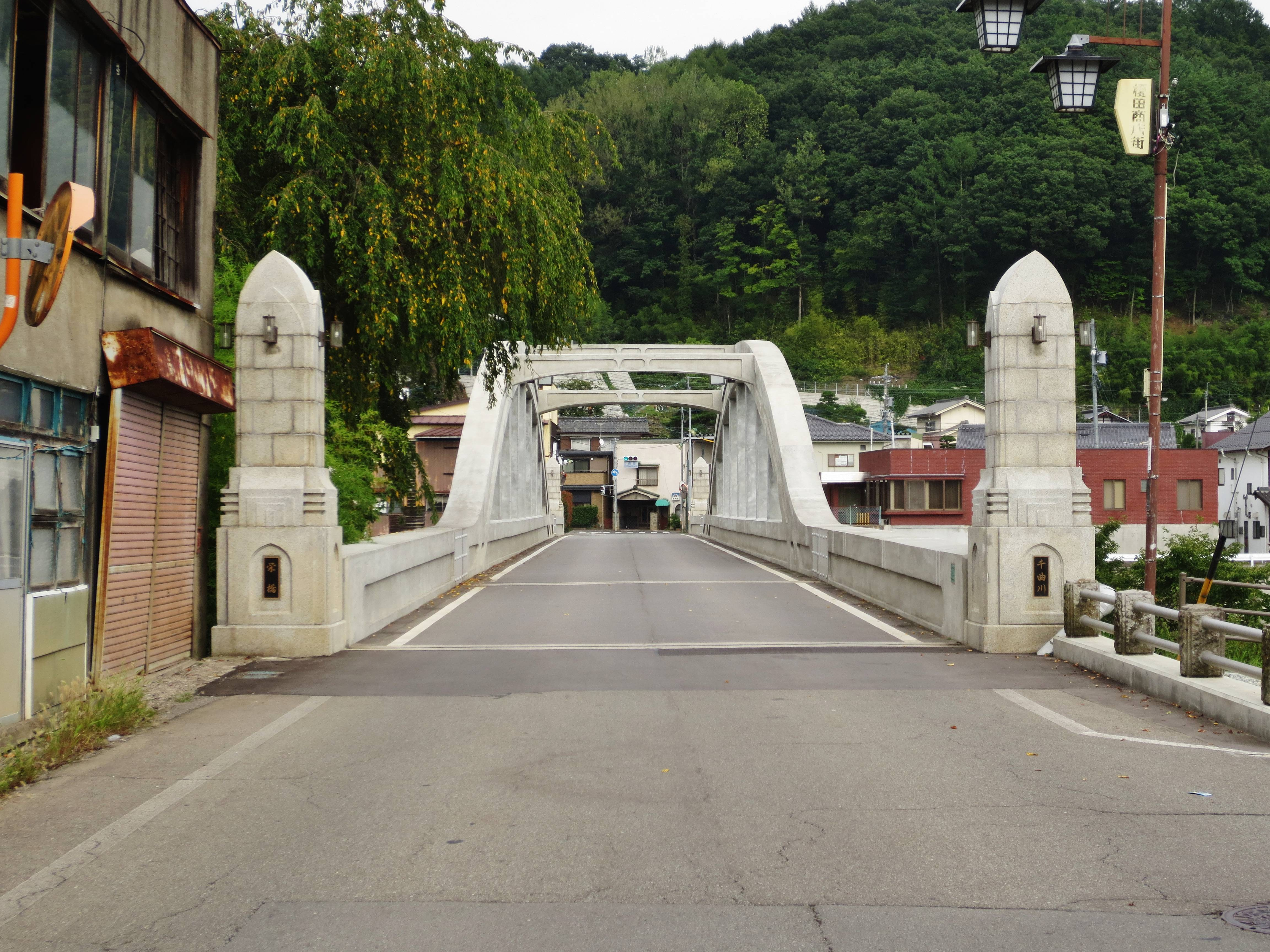 Sakae Bridge (Sakuho, Nagano).